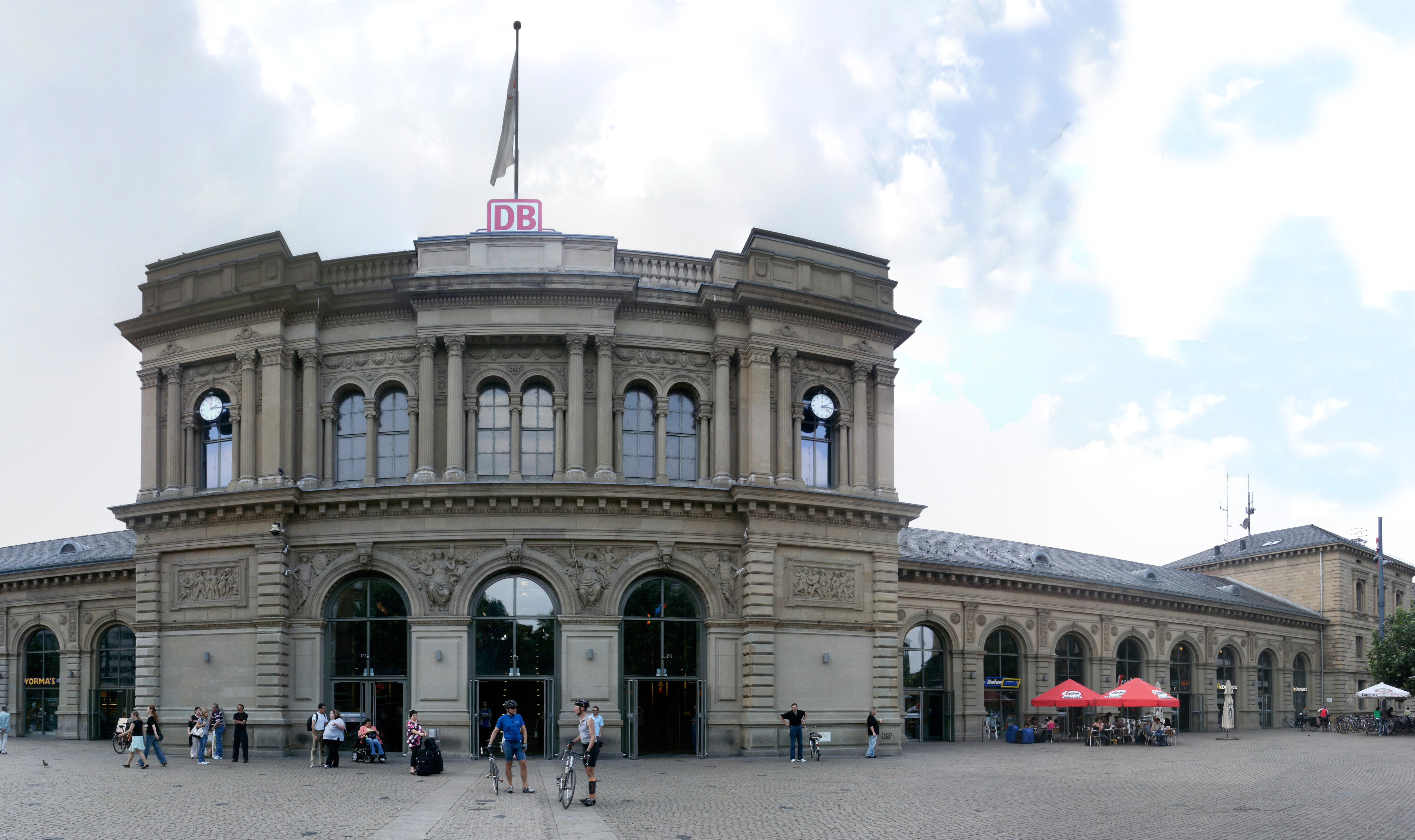 Hauptbahnhof Mainz, Germany, with right wing. Stiched out of 24 pictures.